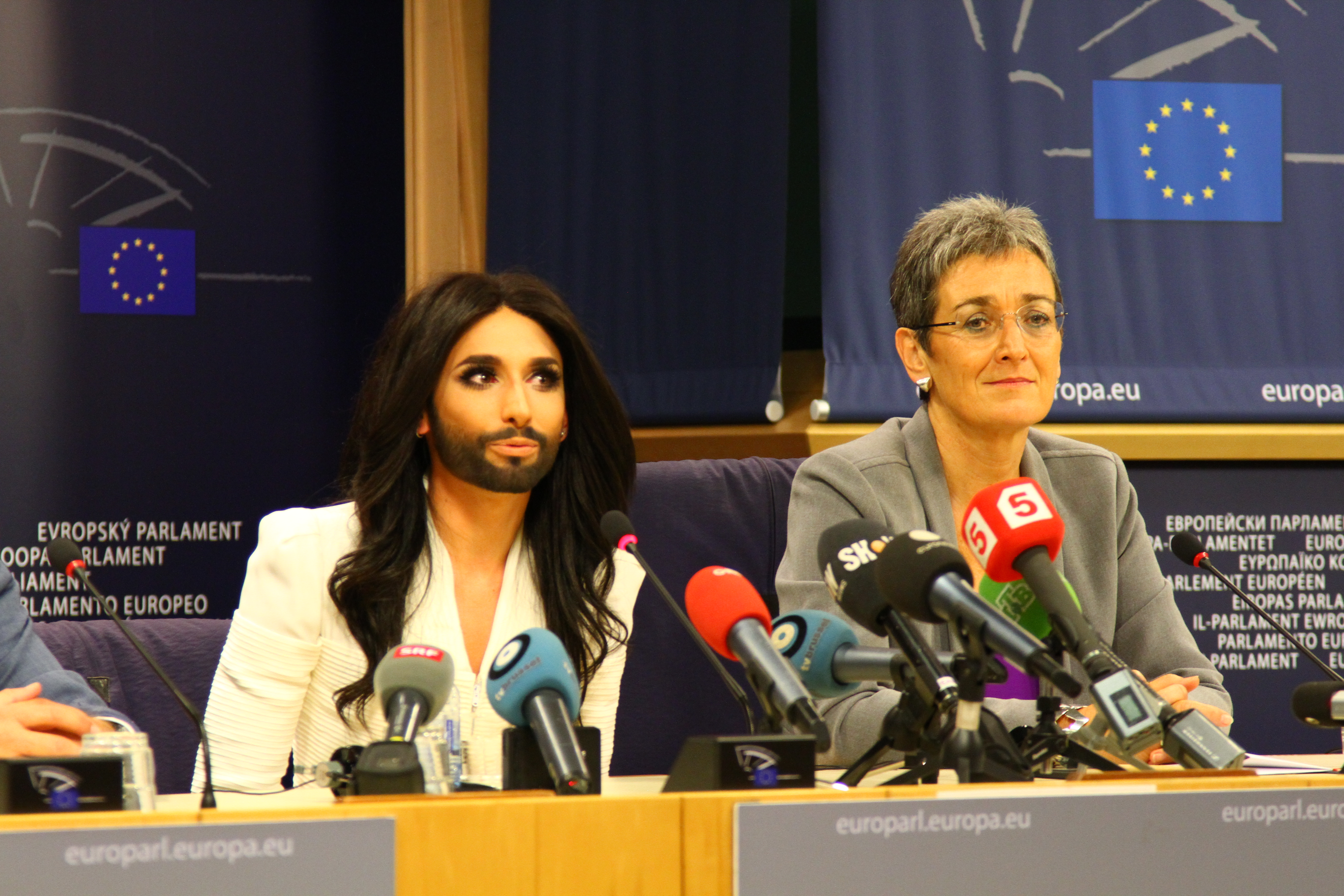 Eurovision Song Contest Winner Conchita Wurst will perform on Esplanade Solidarność in front of the European Parliament. Hosted by Green MEP & European Parliament Vice-President Ulrike Lunacek, this free event will start at 13:00 on Wednesday 8th October. Conchita will also take part in : a press conference at 11:00 (Press room of the European Parliament) an autograph session between 12:15 and 12:45 (in the Parlamentarium) Watch the livestream of the Press conference and later Video on Demand here